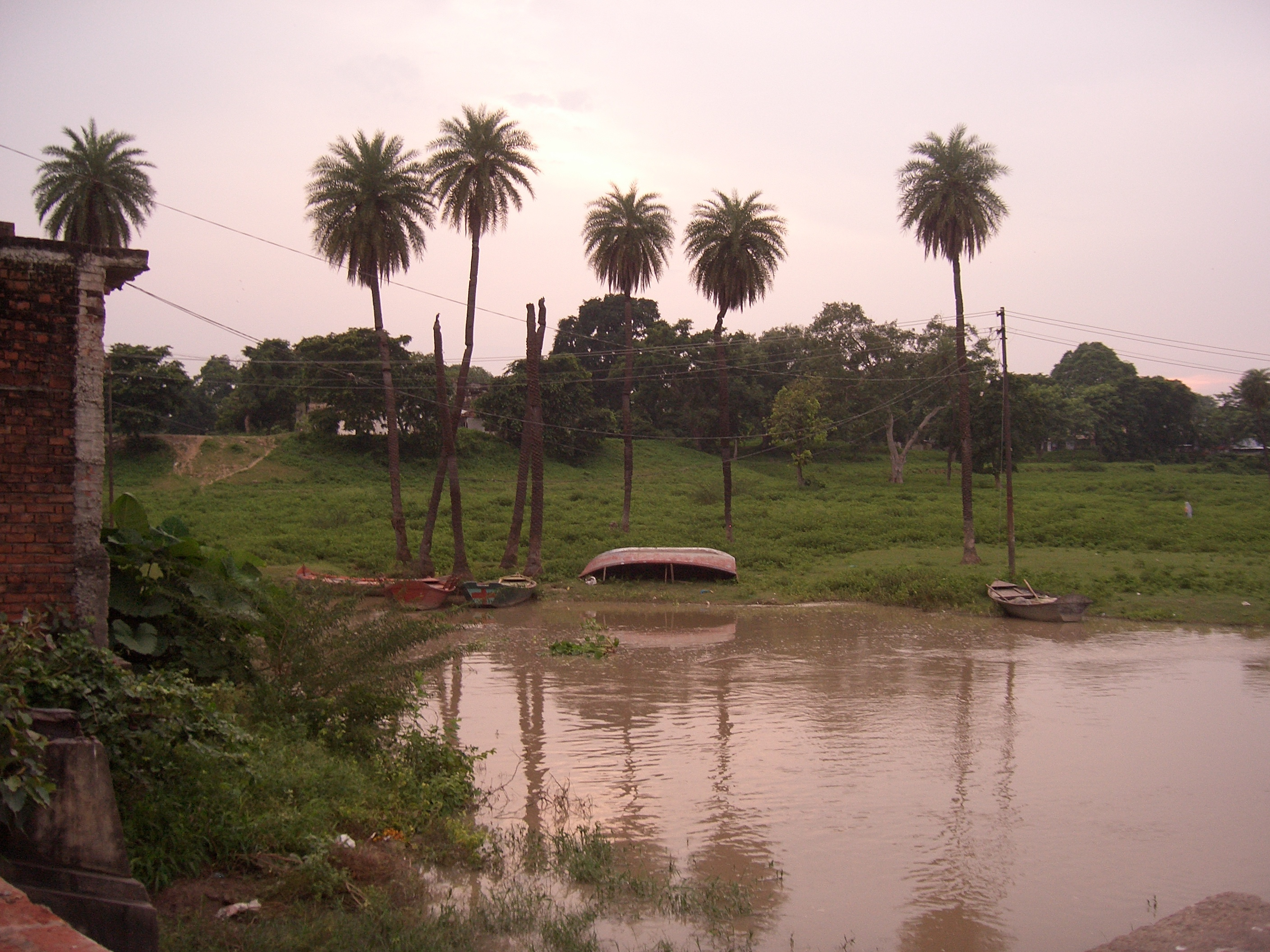 Sati Chaura Ghat - Small boats of fishermen on bank of River Ganges